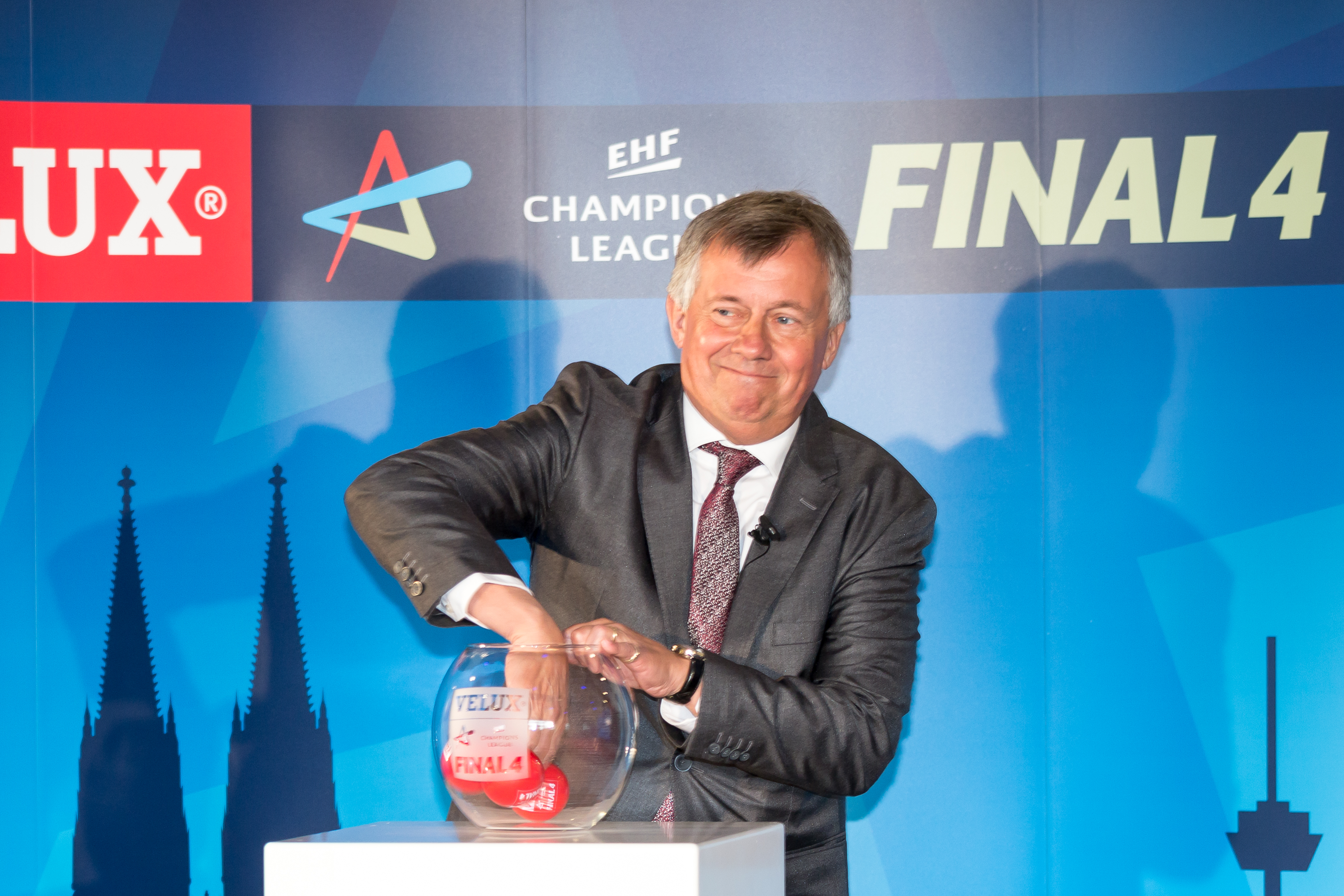 Draw Event Velux EFH Final Four 2016Image: EHF Secretary General Michael Wiederer is mixing the balls with names of the 4 participants